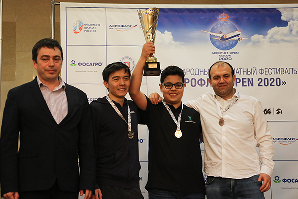 Aeroflot Open 2020